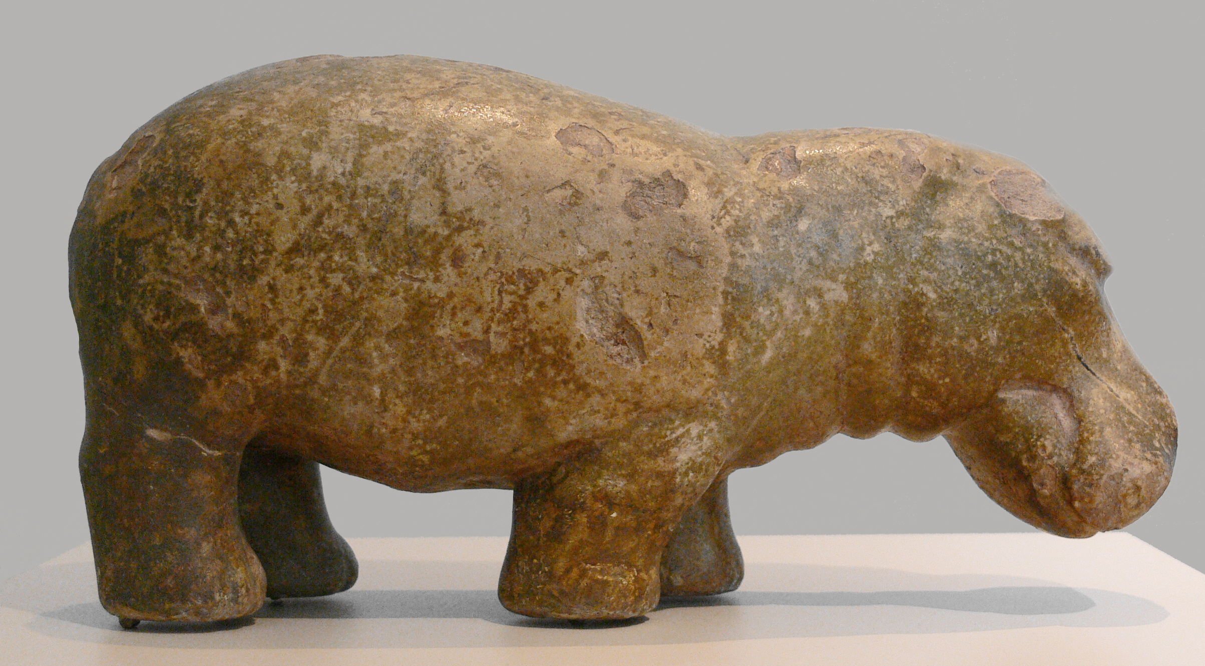 Hippopotamus, fayence sculpture, New Kingdom of Egypt, 18th/19th dynasty, c. 1500-1300 BC. Egyptian Museum, Berlin.